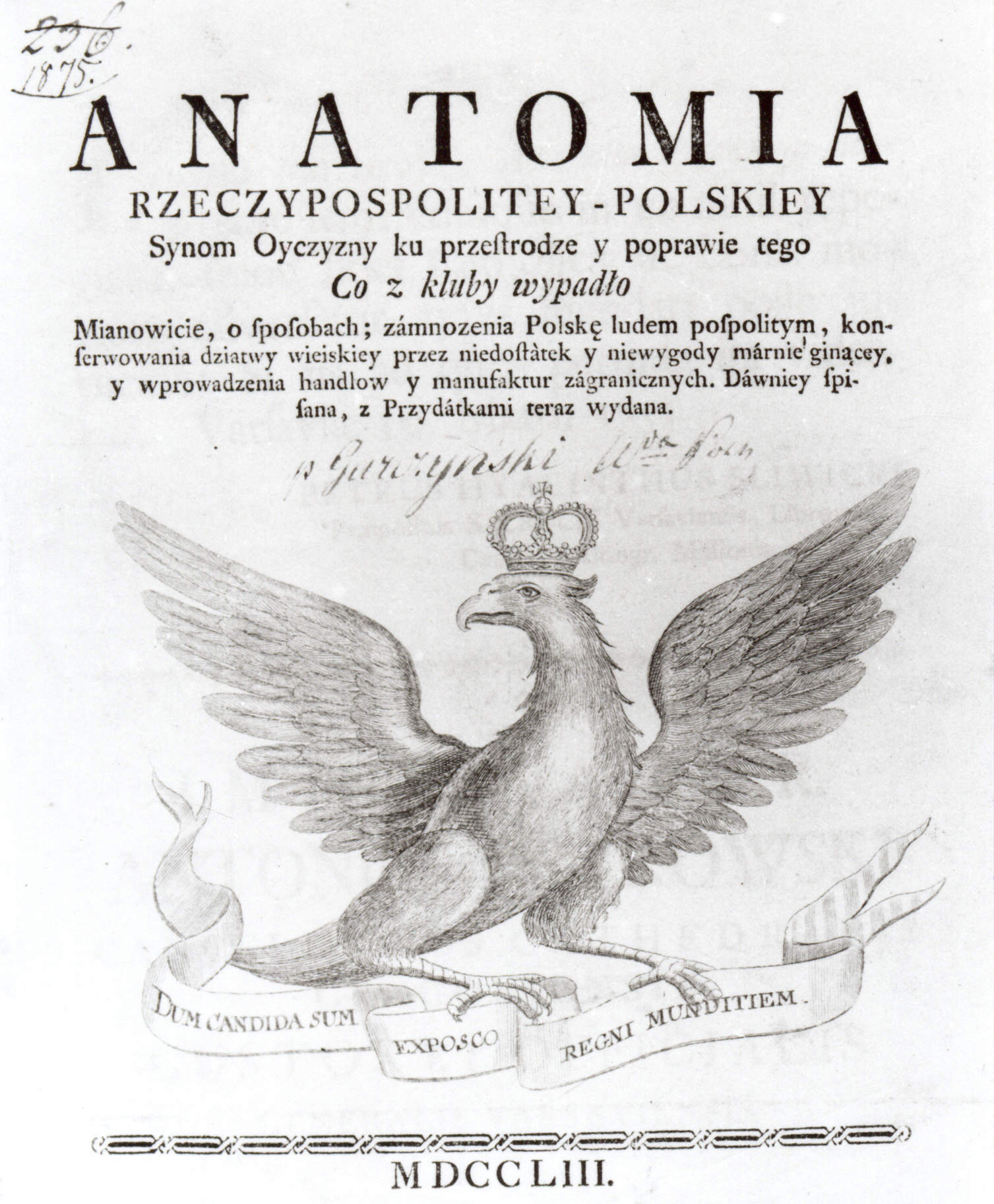 Anatomia Rzeczypospolitey Polskiej by Stefan Garczynski